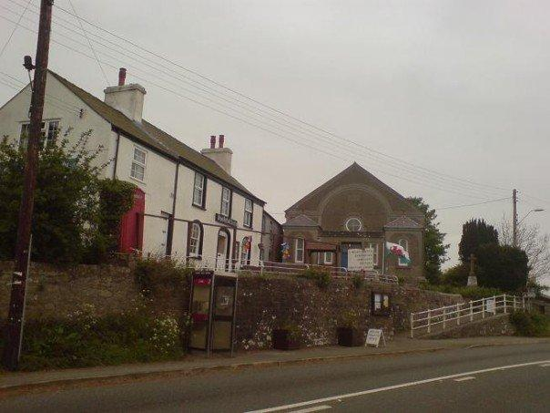 Photo taken of the village of Brynrefail, Anglesey. Taken by cls14.